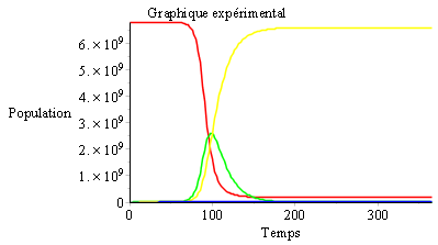 Graphique en deux dimensions